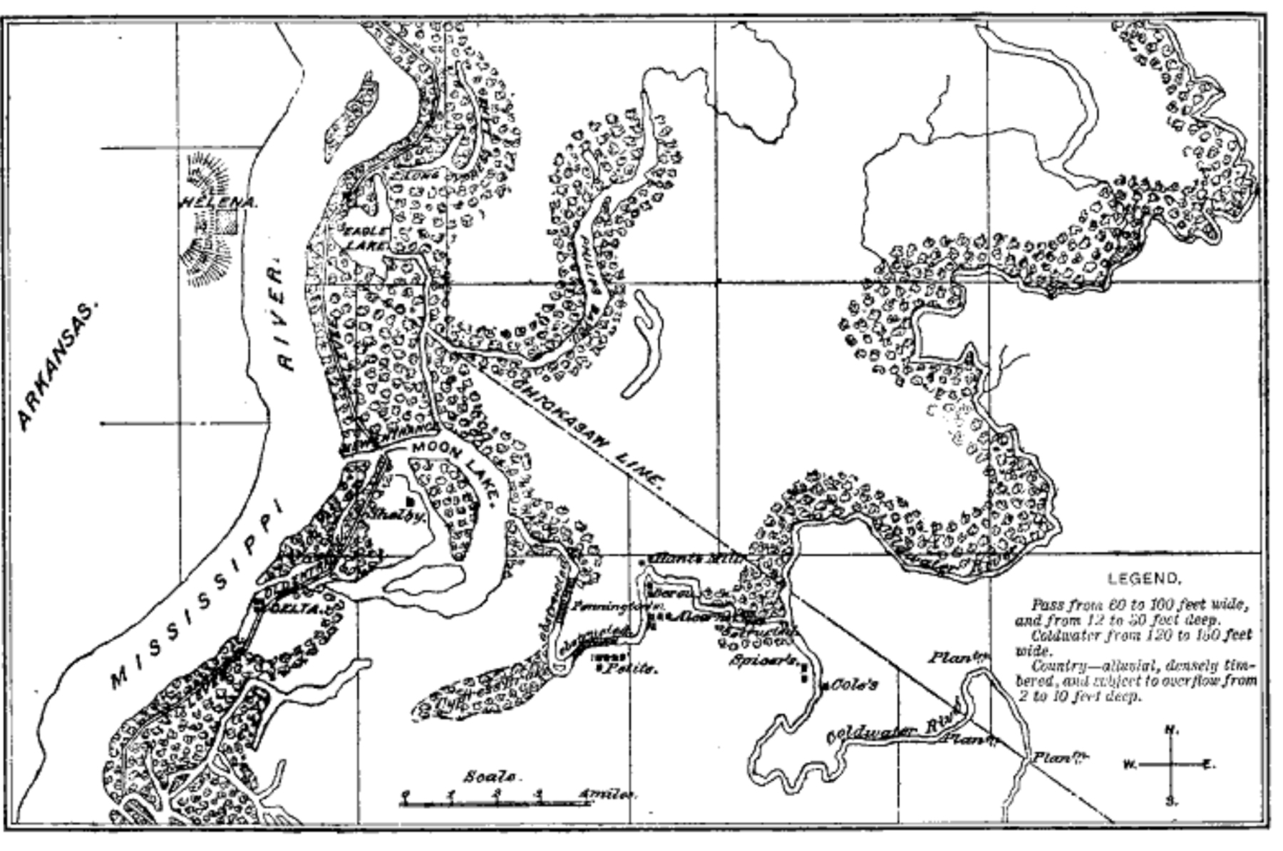 Route of the Yazoo Pass Expedition from the Yazoo Cut into the Coldwater River. Part of the Vicksburg Campaign of the American Civil War.